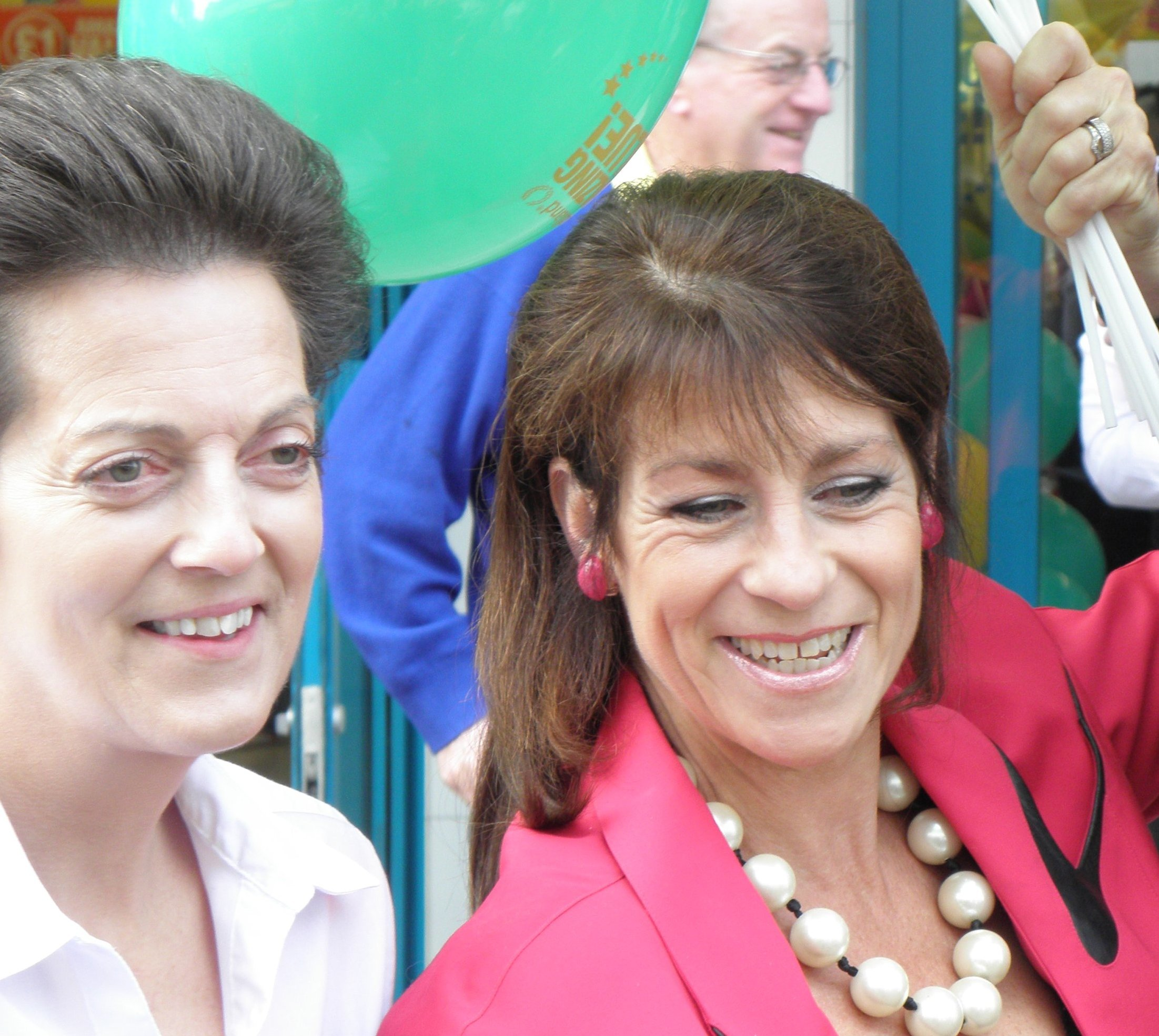 Viv (actress Deena Payne) opening the new Pound Shop, the old Woolworths in Ipswich (UK) taken by Alan B Thompson